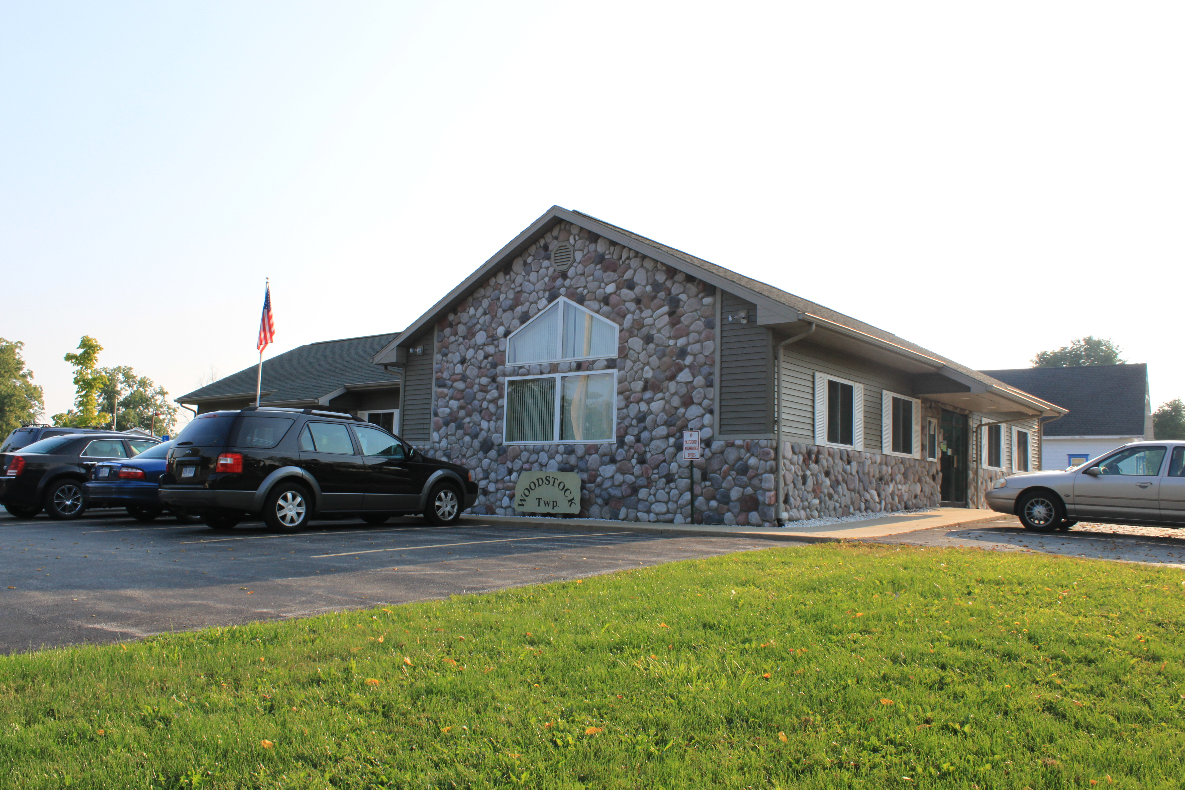 Woodstock Township Hall, 6486 Devils Lake Higway, Woodstock Township, Michigan